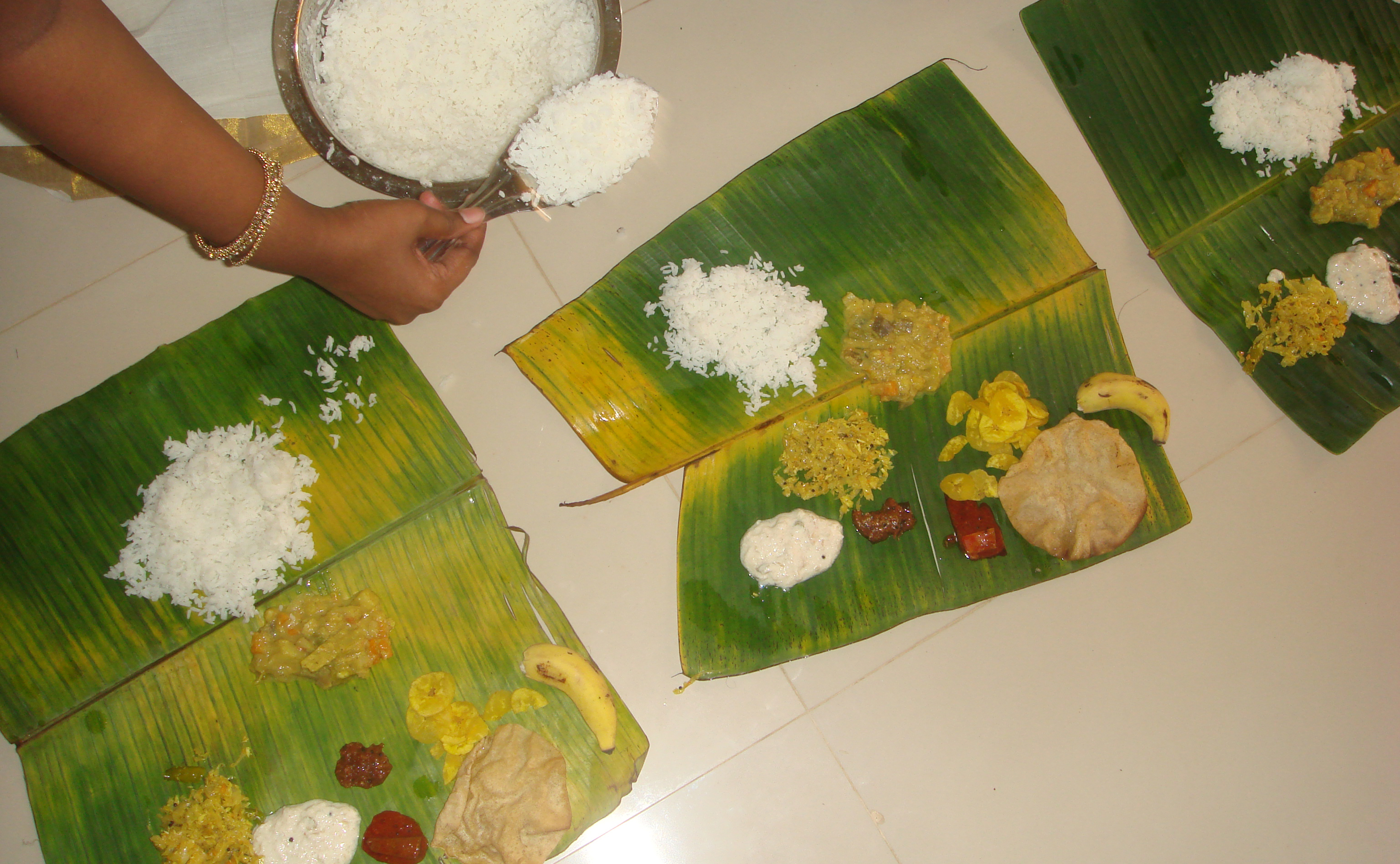 Onam is the harvest festival of Kerala, India. This is a special feast lunch on that day served on banana leaf traditionally. There will be usually rice and more than 10 side dishes and a sweet at the end.